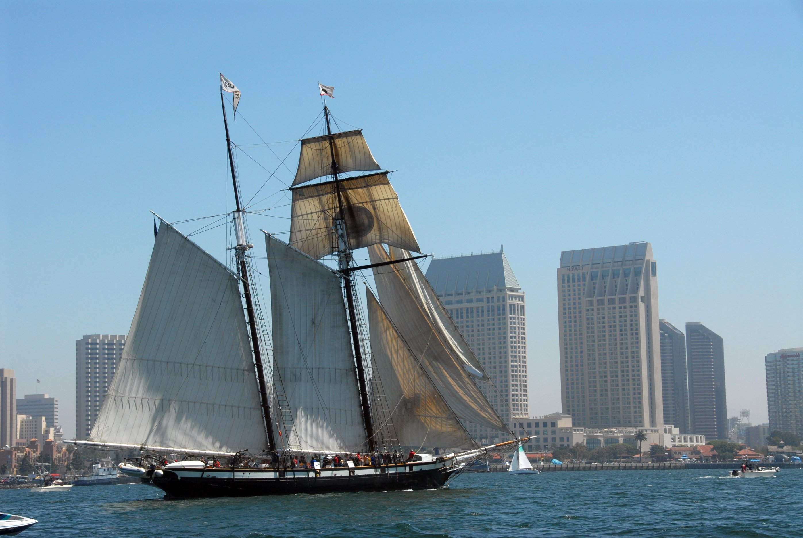 The following is the author's description of the photograph quoted directly from the photograph's Flickr page. Cannon fire welcomed the armada of ships parading into the San Diego Bay on the opening day of the Festival of Sail on Labor Day weekend 2010. Photo Courtesy: Dale Frost